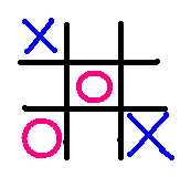 Tictactoe game